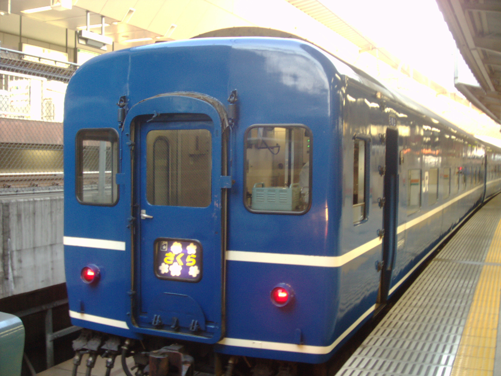 14 series sleeping car on "Sakura" night train at Tokyo Station, 13 June 2004